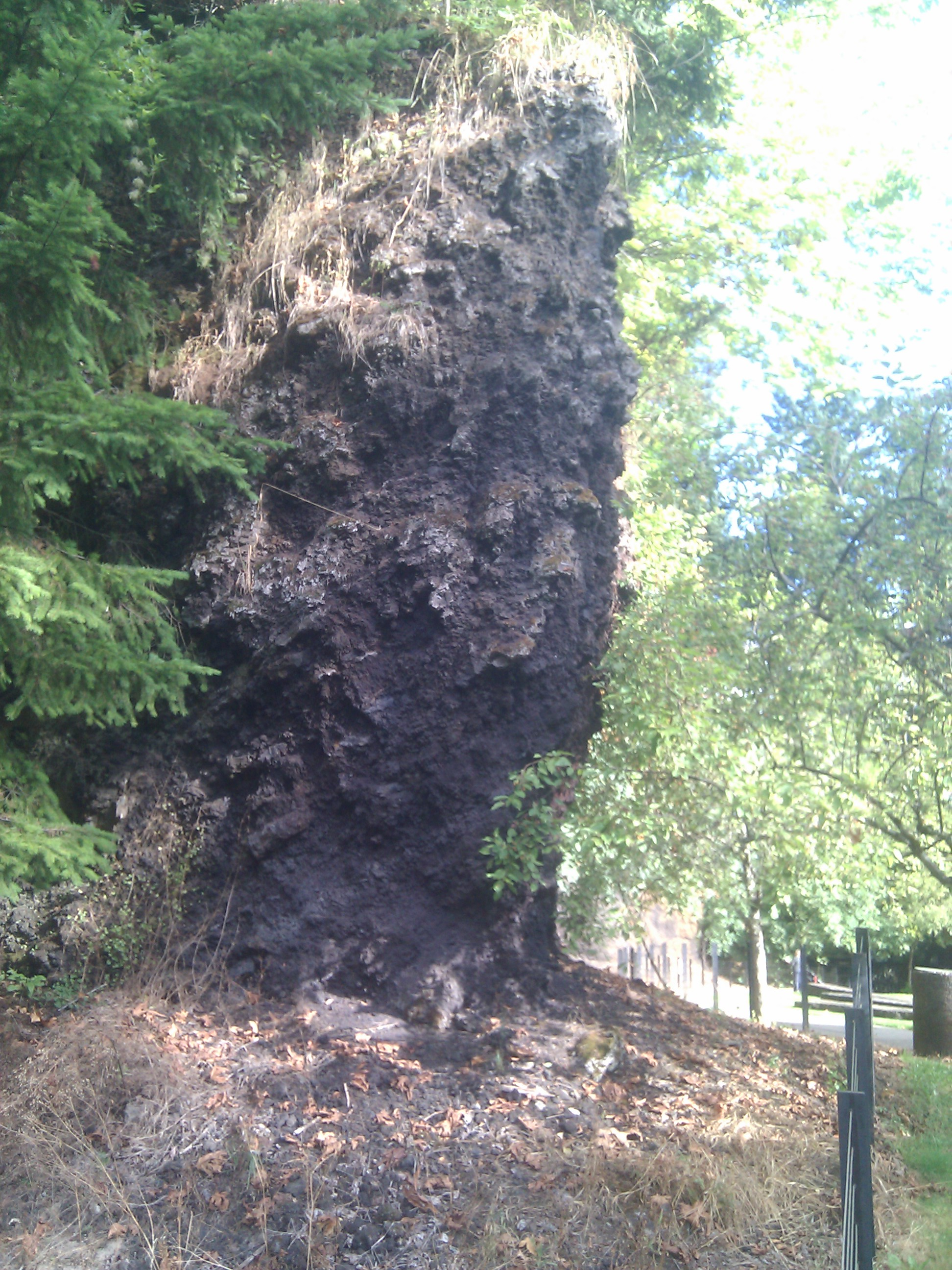 The top of Mt Tabor where a section of the cinder cone has been cut away.